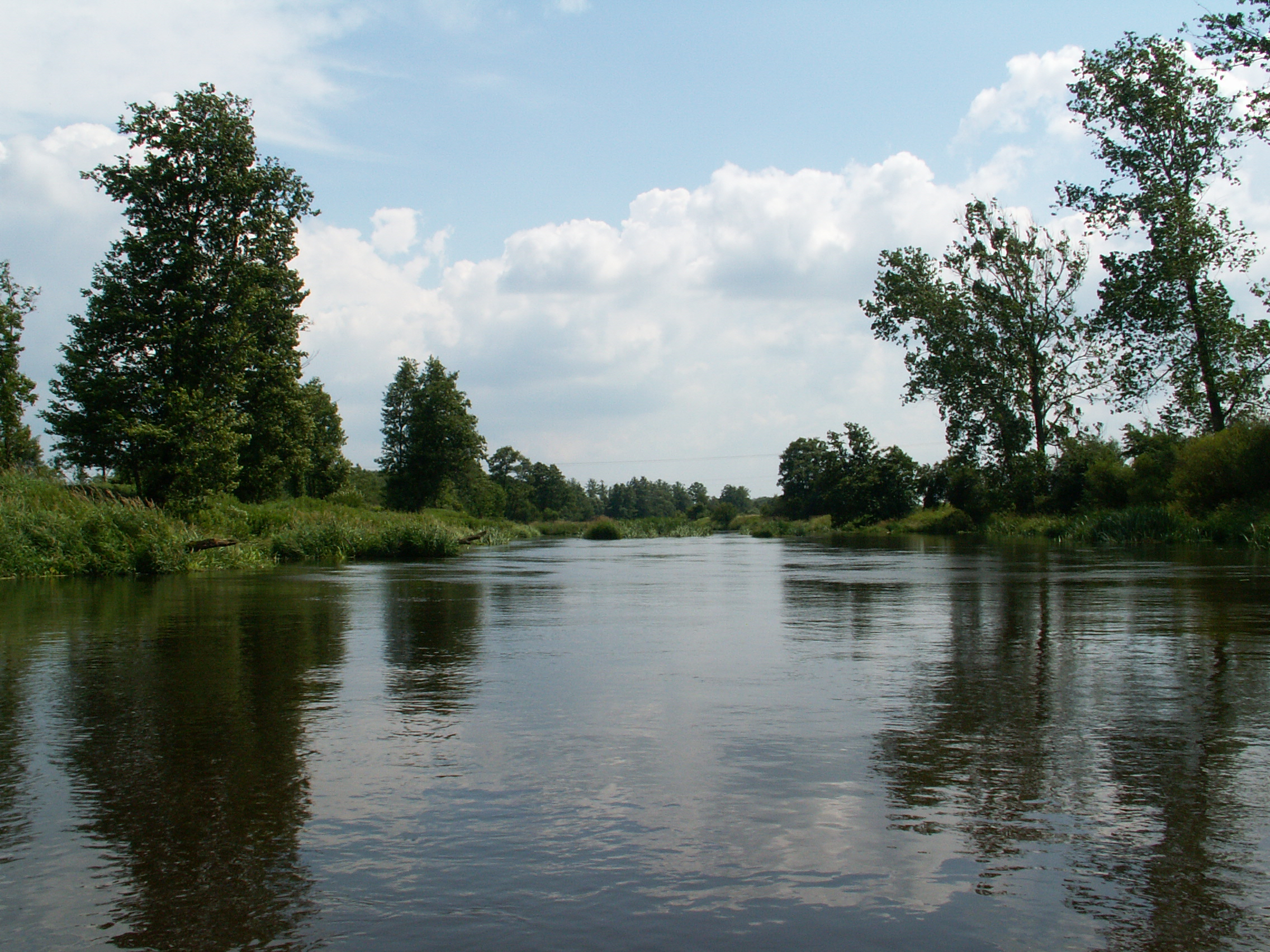 Nida near Brzegi, Poland